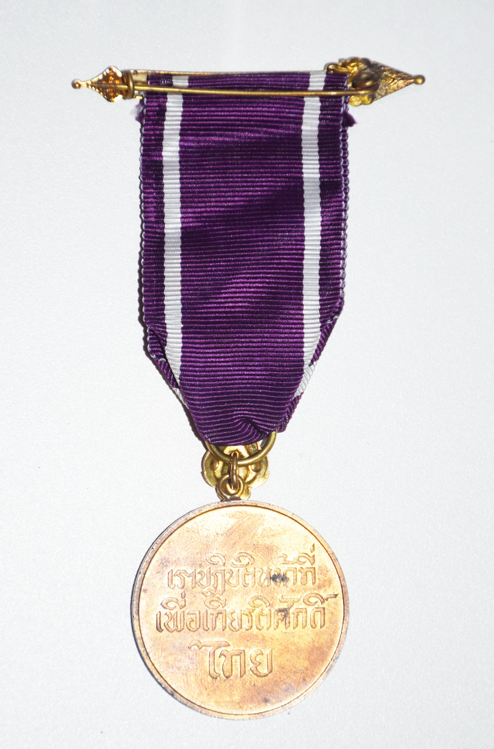 Border Service Medal (Thailand) in Wat Kungtapao Local Museum. at Wat Khung Taphao, Ban Khung Taphao, Khung Taphao subdistrict, Mueang Uttaradit, Uttaradit Province, Thailand.